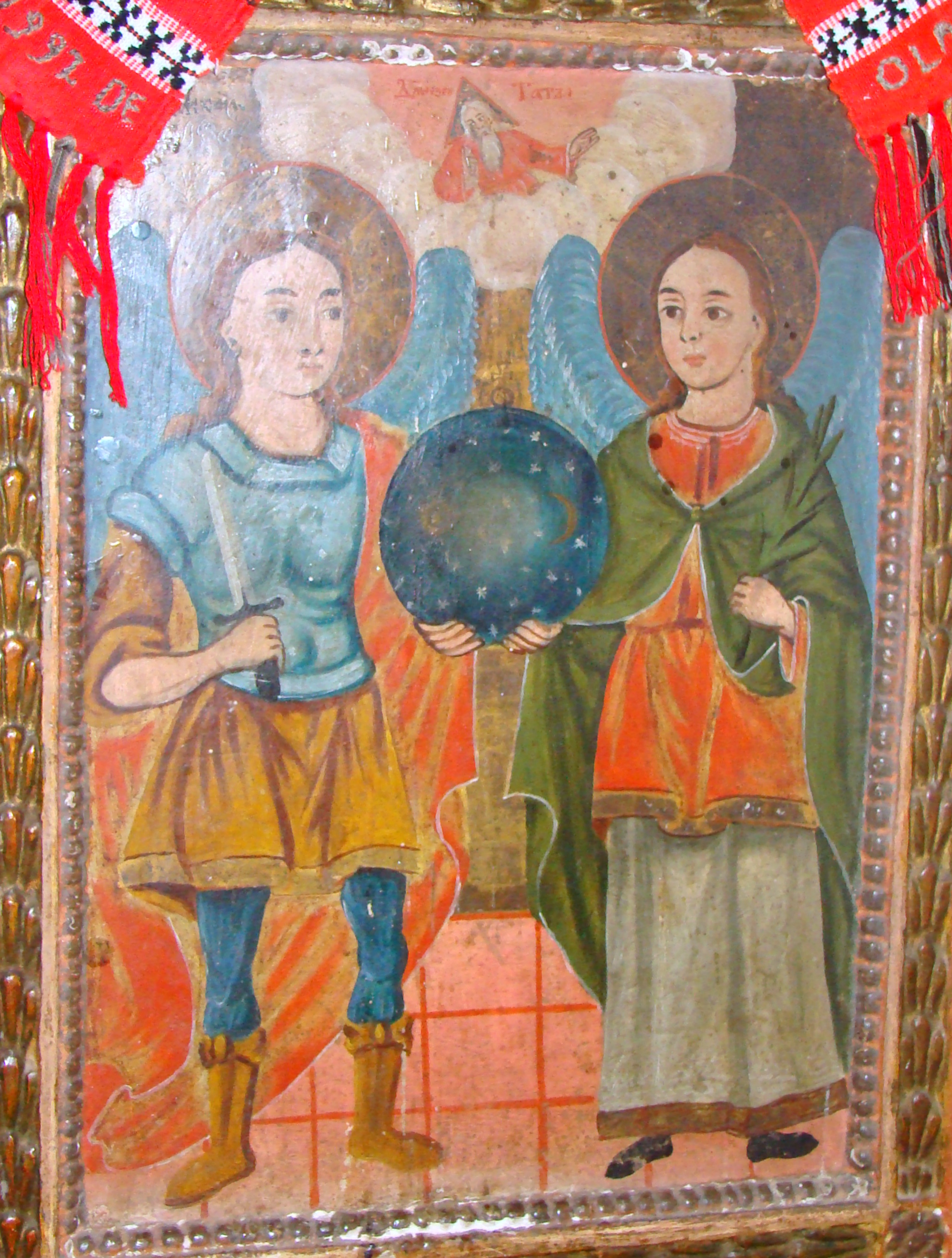 Wooden church in Căzănești, Hunedoara county, Romania